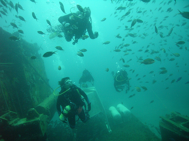 During training week for the NEEMO 15 underwater exploration mission in October 2011, divers Margarita Marinova of NASA, Canadian Space Agency astronaut David Saint-Jacques, NASA astronaut/NEEMO 15 commander Shannon Walker (in back), and JAXA astronaut Takuya Onishi swim with the fish outside the Aquarius underwater habitat. NASA photo in public domain.